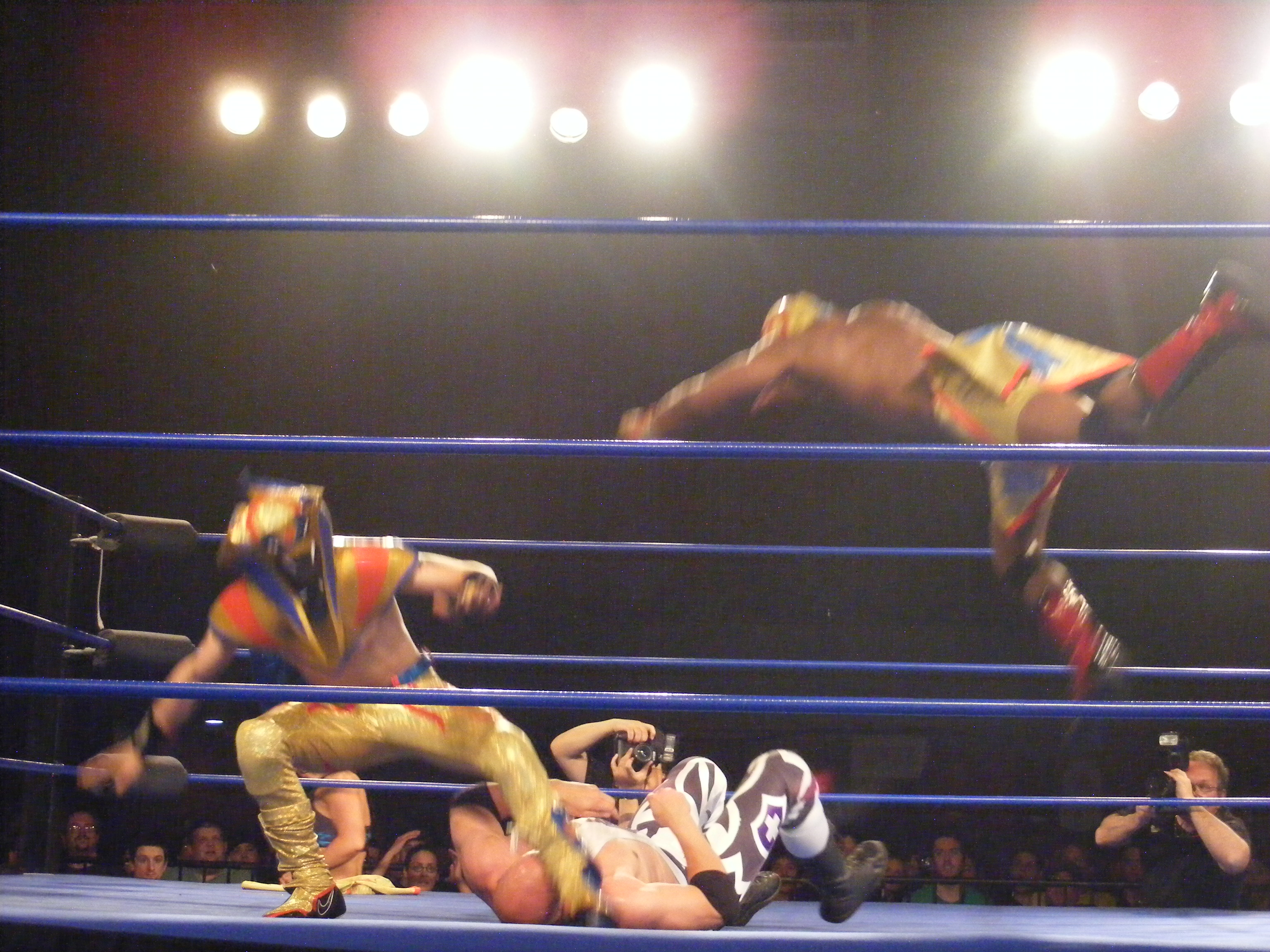 Professional wrestlers Amasis and Ophidian performing the Osirian Sacrament on Ares at a Chikara show